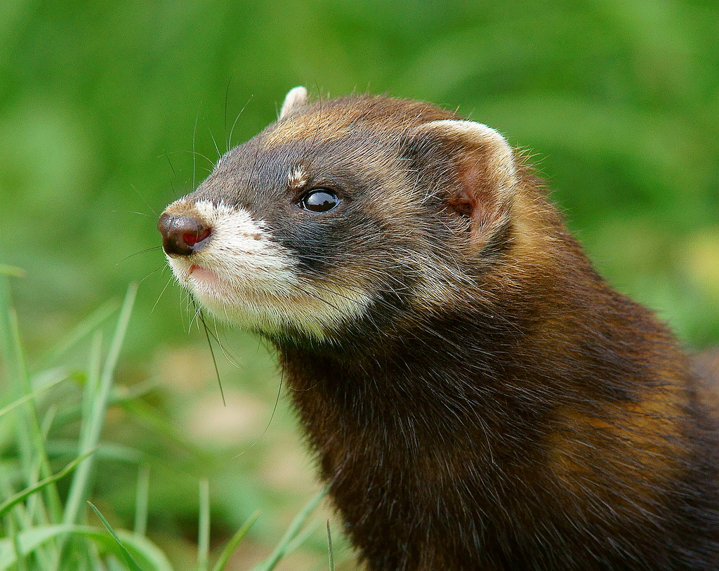 At the British Wildlife Centre, Newchapel, Surrey; 'Velvet' sniffs the air, and looks for food.